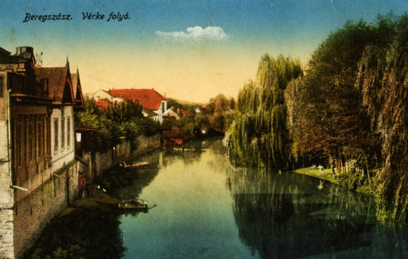 River_in_Berehove